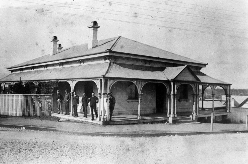 Bank personnel outside the Queensland National Bank, Gympie, ca. 1890 Staff of the Queensland National Bank standing in front of the Gympie branch. The bank building is encircled by a verandah with a corrugated iron roof and latticework around the verandah supports. Gympie is a city in south-eastern Queensland, situated on the Mary River about 162 kilometres north of Brisbane. Gympie is the centre of an important dairying and agricultural district. In the early days timber was a significant industry.